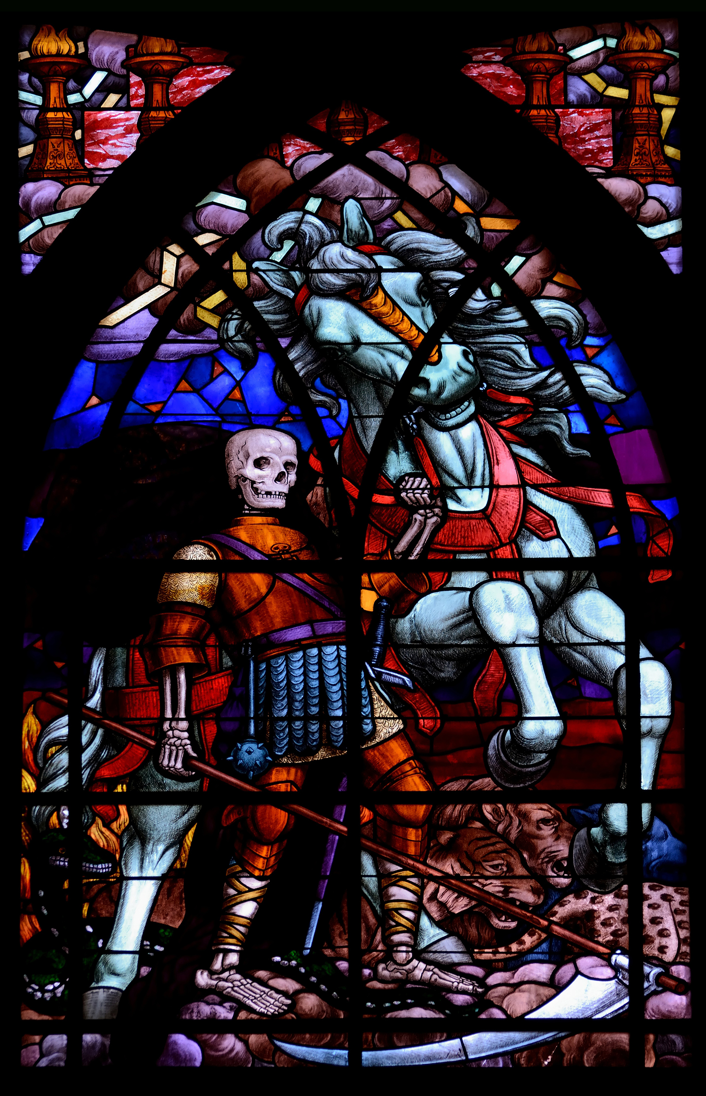 Parish church St-Jean de Montmartre, stained glass window: The Fourth Horseman of the Apocalypse, 16th arr. Paris